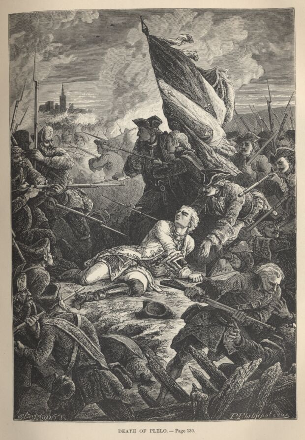 Death of Louis Robert Hippolyte de Bréhan, Count of Plélo, French Ambassador to Copenhagen, on 23rd of May 1734, during the Siege of Danzig (Gdansk), attacking the enemy Russians'camp on the Westerplatte.